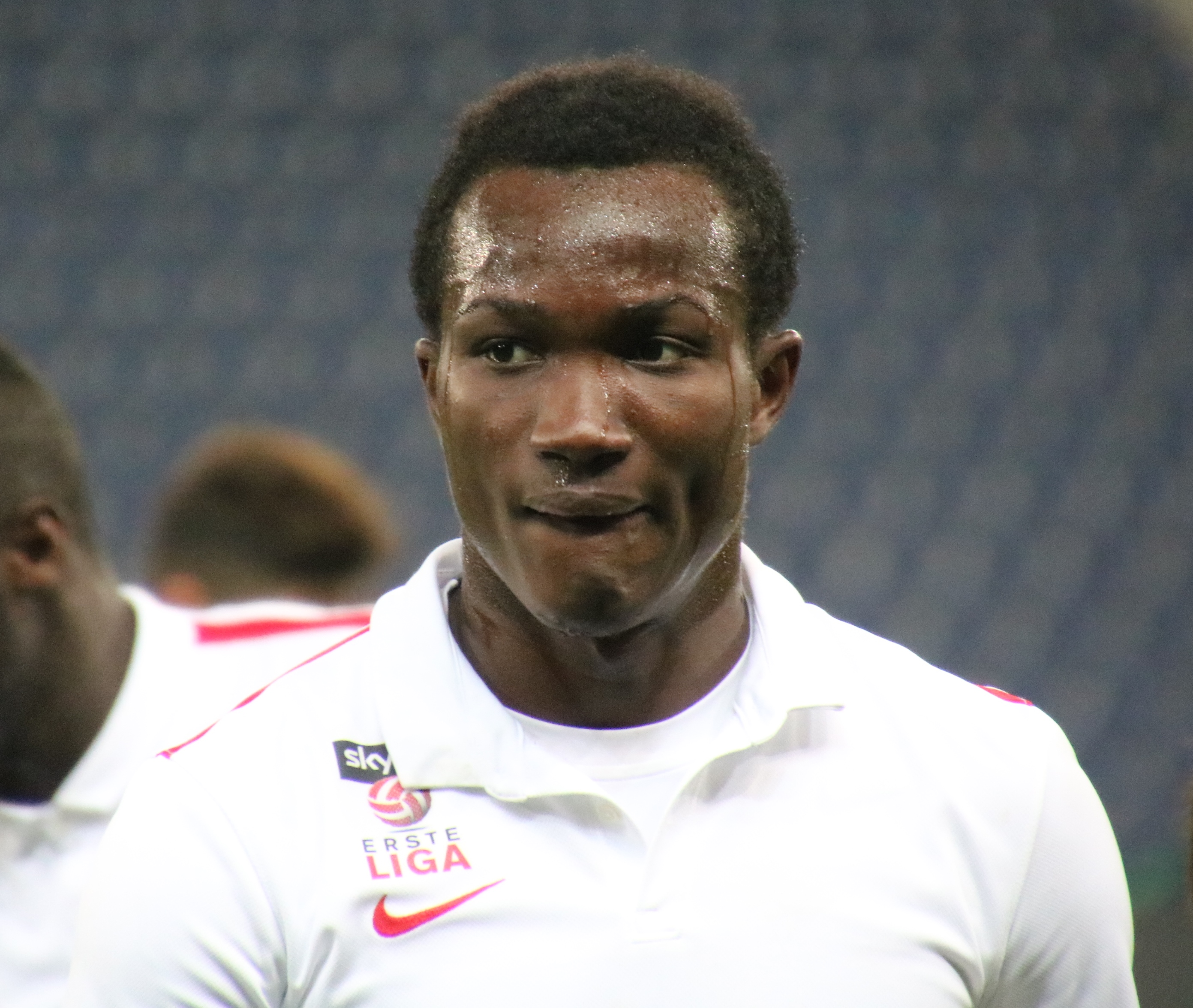 league match Austria 2nd league